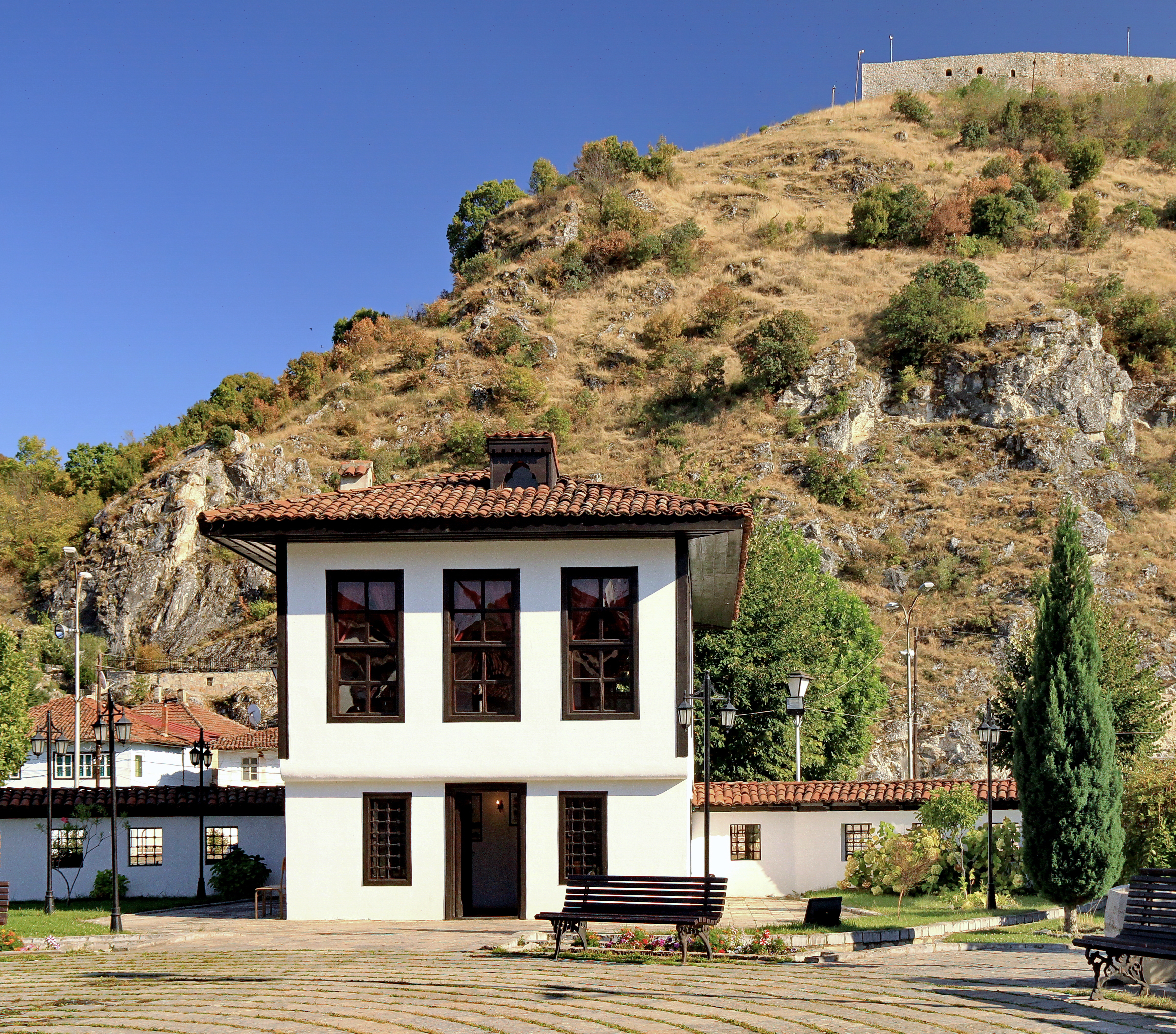 The League of Prizren building. Prizren, Kosovo